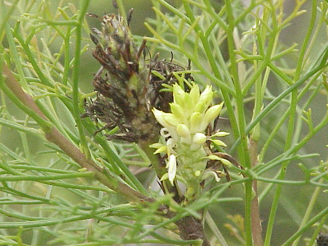 Species: Petrophila pedunculata Family: Proteaceae Image No. 2